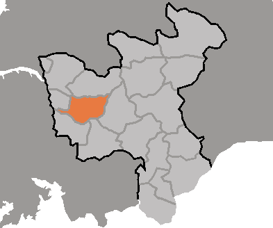 Map of Bongsan, Hwanghae-pukto, DPRK, 2006